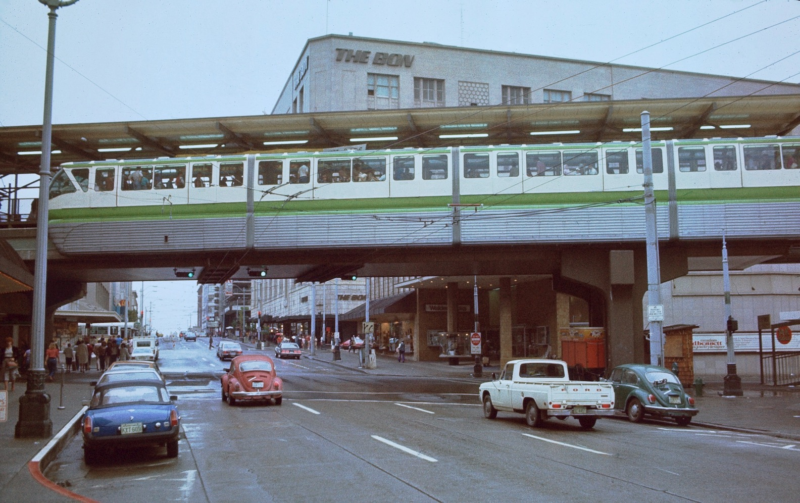 The old downtown terminal of the Seattle Center Monorail, over Pine Street at Westlake Avenue (which was halfway between 4th and 5th Avenues, and pedestrianized), in 1982 – viewed from the east-northeast, with a monorail train laying over. This terminal was closed on September 1, 1986, and demolished over the next two months, and the monorail line was permanently shortened by about 100 feet and realigned to follow 5th Avenue instead of Westlake Avenue south of Olive Way. The permanent replacement terminal station opened in February 1989. In the background of this view, the flagship store of the The Bon Marché (branded as The Bon at the time) is visible. In the foreground, two sets of trolleybus wires for the Seattle trolleybus system can be seen.